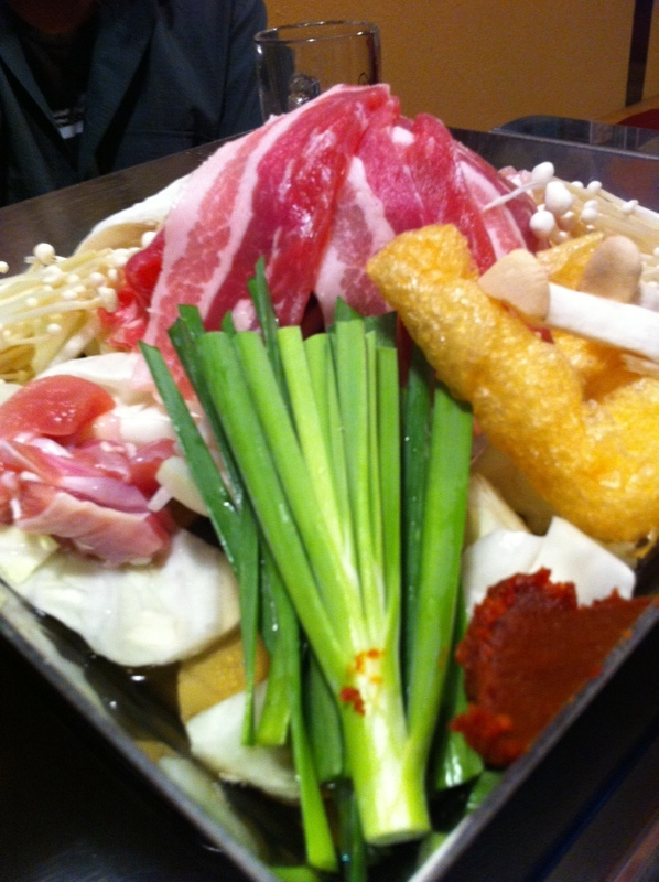 ちりとり鍋 - from Brightkite